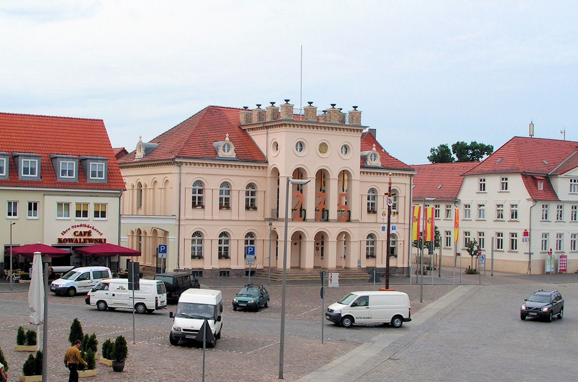 Town hall of Neustrelitz